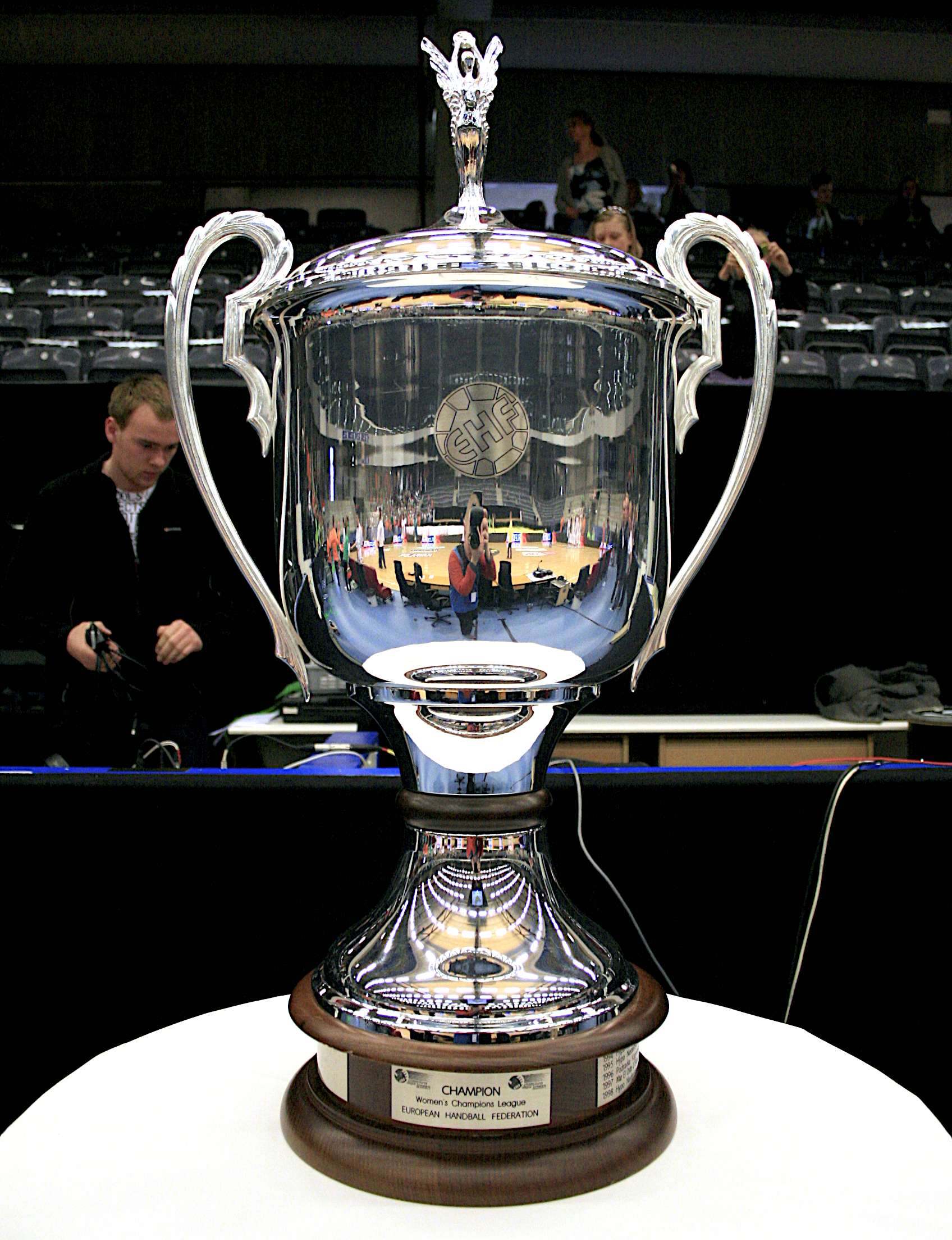 former EHF Champions League Trophy